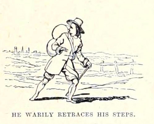 Illustration from Baxter's edition of The Pilgrim's Progress', commented by R.L. Stevenson in an essay.